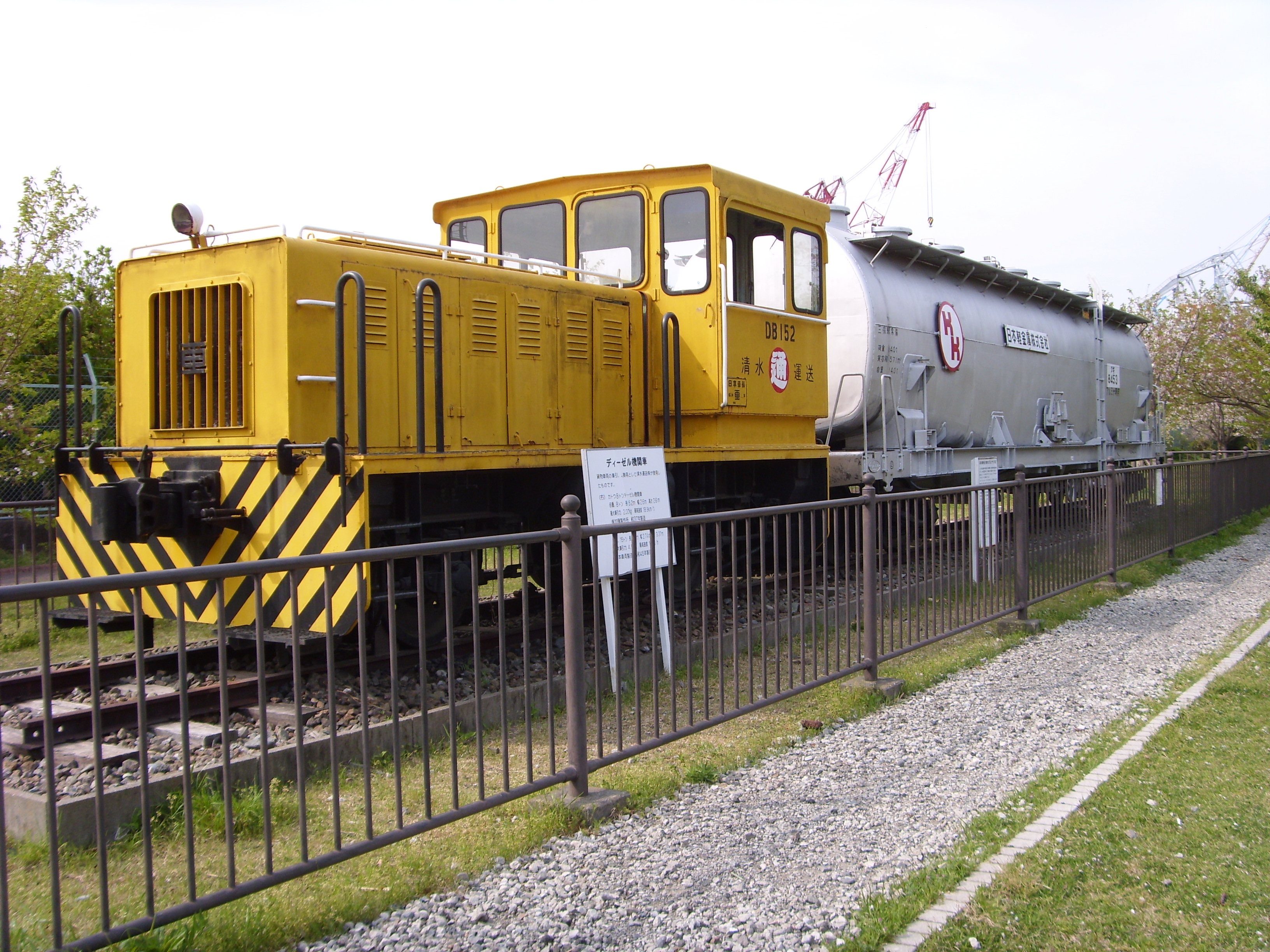 train at miho statio, shimizu